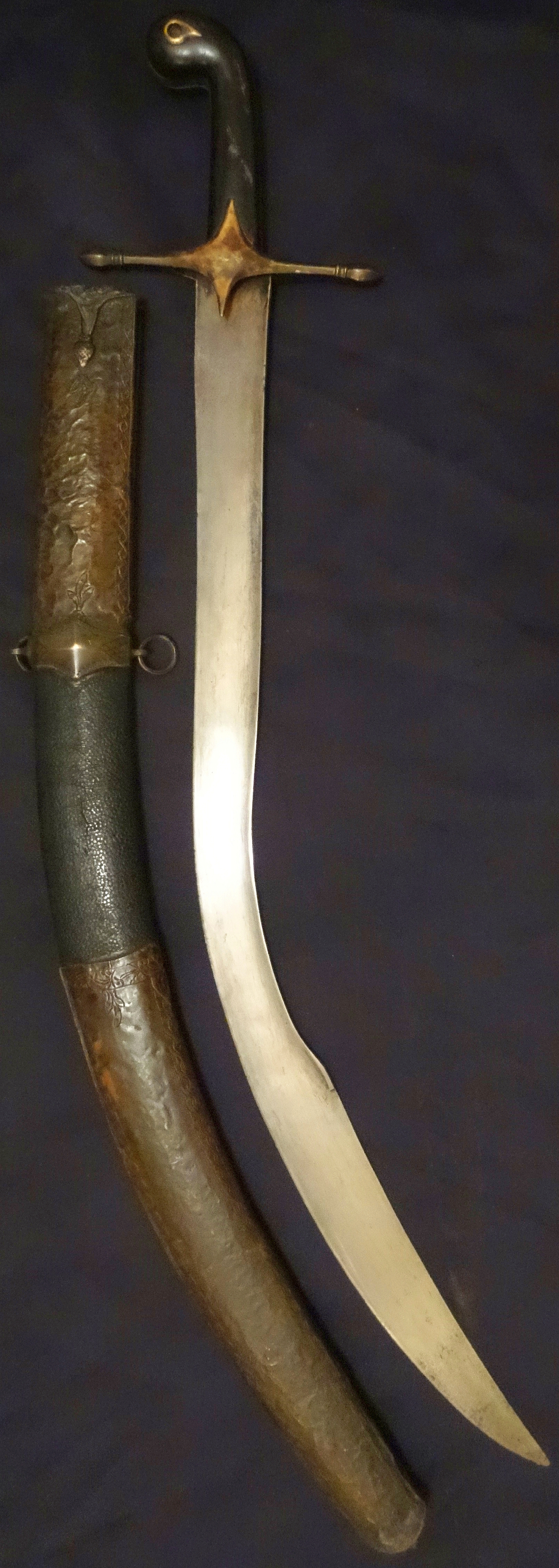 The short version of the Ottoman kilij sometimes known as pala, with deeply curved wide blade and ‘T’ spine, it was in use from the early 17 C. for more than 300 years well into the 20th C. The hilt of classical form is made of brass cross guard and horn grips with bulbous pommel and brass grip strap. The original wood scabbard is covered with leather and has spiral brass stitching, mounted with chased brass locket and chape, 27 inch blade, 33 inches total.